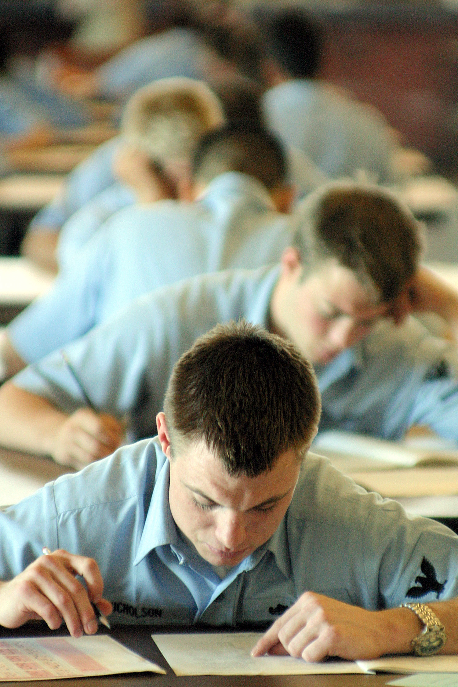 Pearl Harbor, Hawaii (Mar. 16, 2003) -- Nearly 250 candidates for E-5 mark their answer sheets while taking the March 2003 advancement exam at the Club Pearl Complex. Island-wide, a total of 701 candidates took the test and included Sailors from shore commands as well as those temporarily assigned from deployed Pearl Harbor ships and submarines. U.S. Navy photo by Photographer's Mate 1st Class William R. Goodwin. (RELEASED)